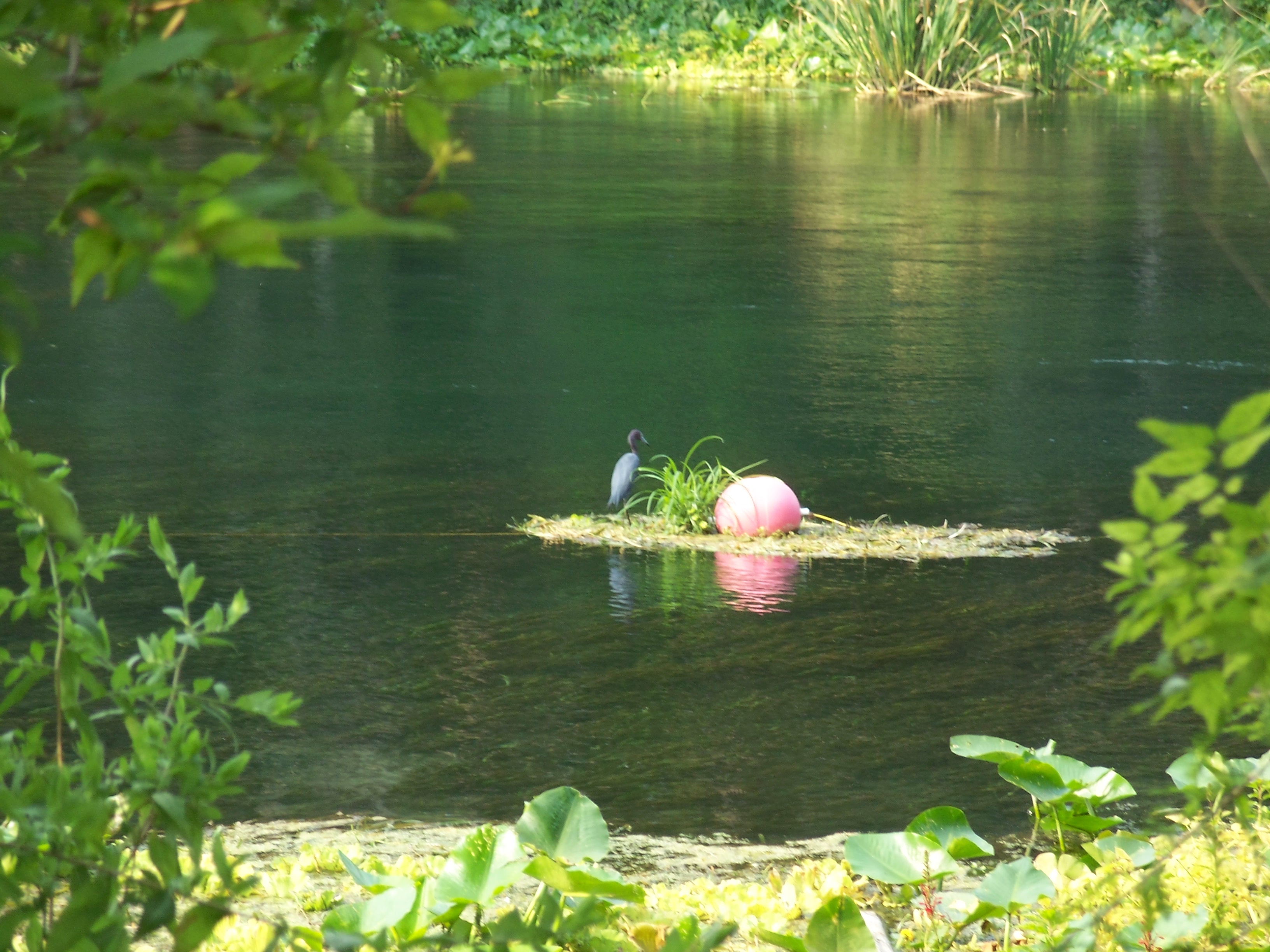 Bird in the Silver River in the Silver River State Park, in Silver Springs, Florida